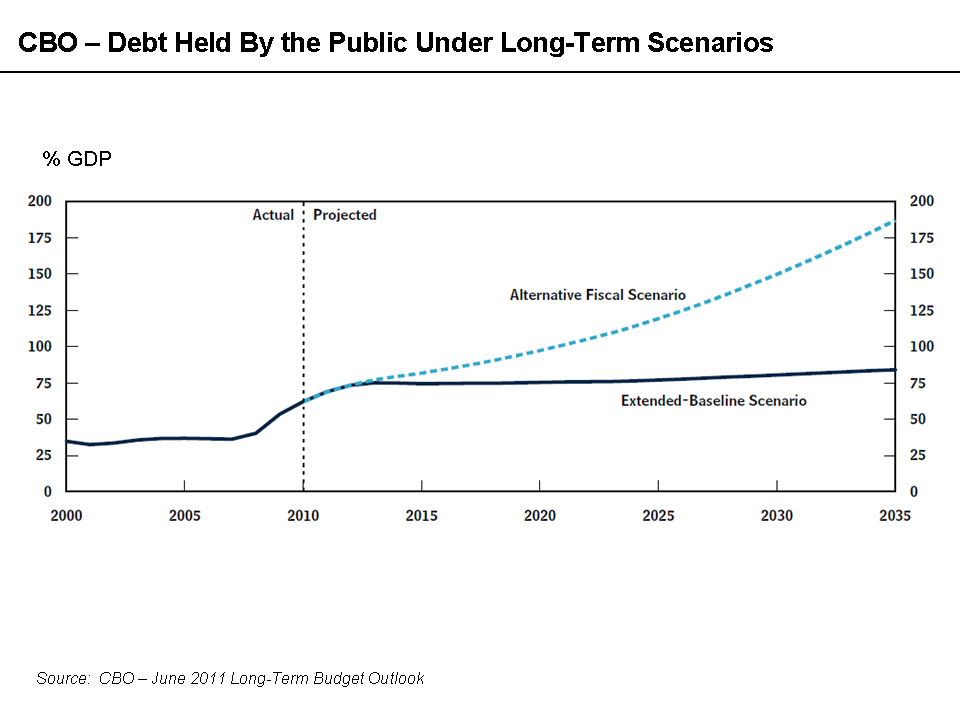 CBO Long-Term Public Debt Scenarios